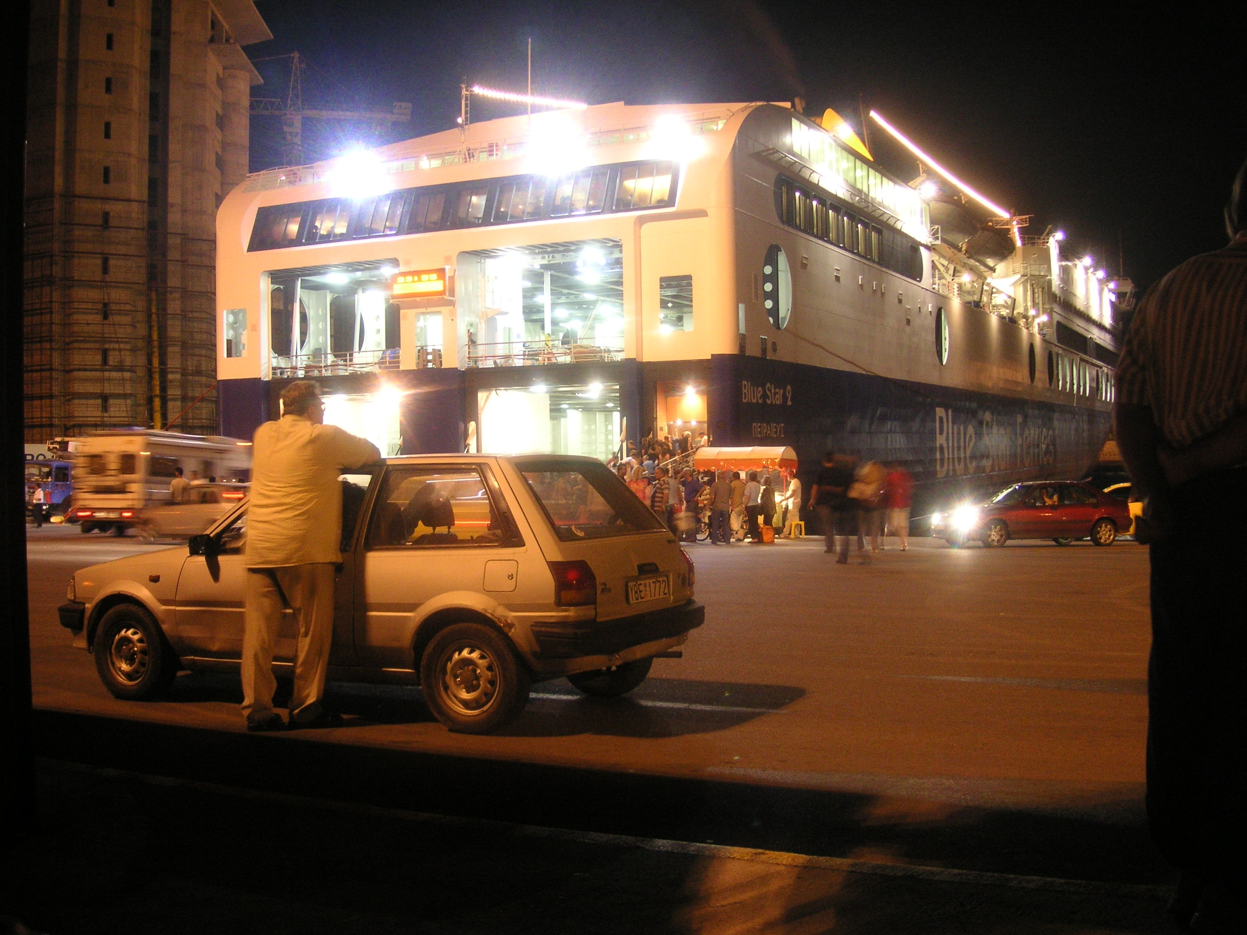 A Blue Star ferry leaving Piraeus, Greece. This ferry is leaving for the Dodecanese.